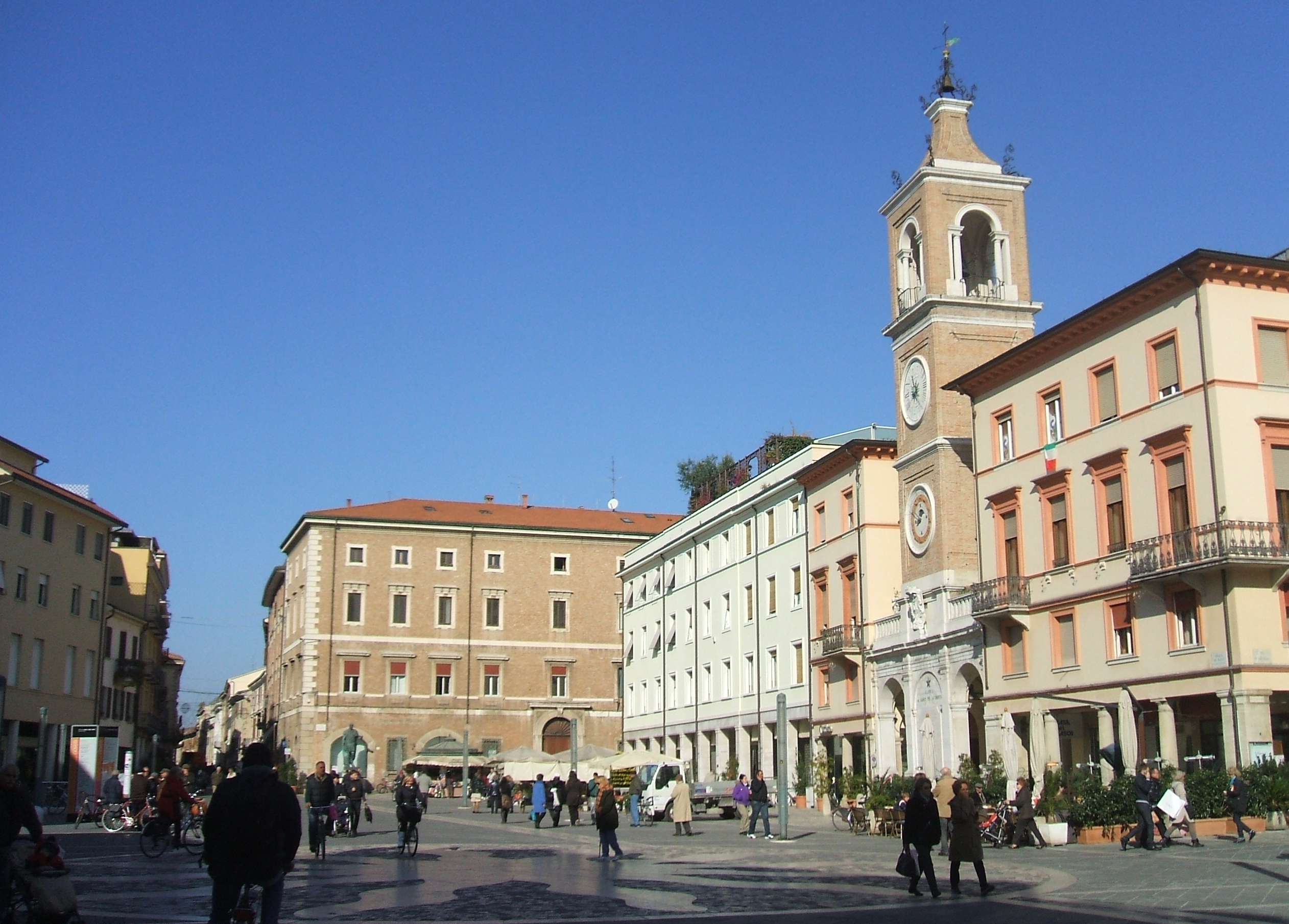 Piazza Tre Martiri in Rimini, Italy